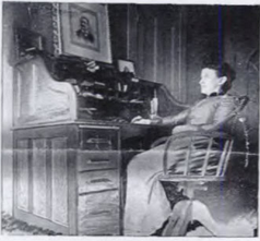 Katharine A. O'Keeffe (later Katharine A. O'Keeffe O'Mahoney)